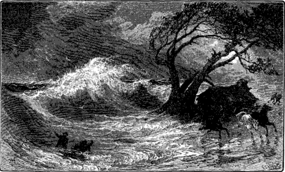 "Storm of 1821" sketch of it hitting Chincoteague, Virginia, 1876